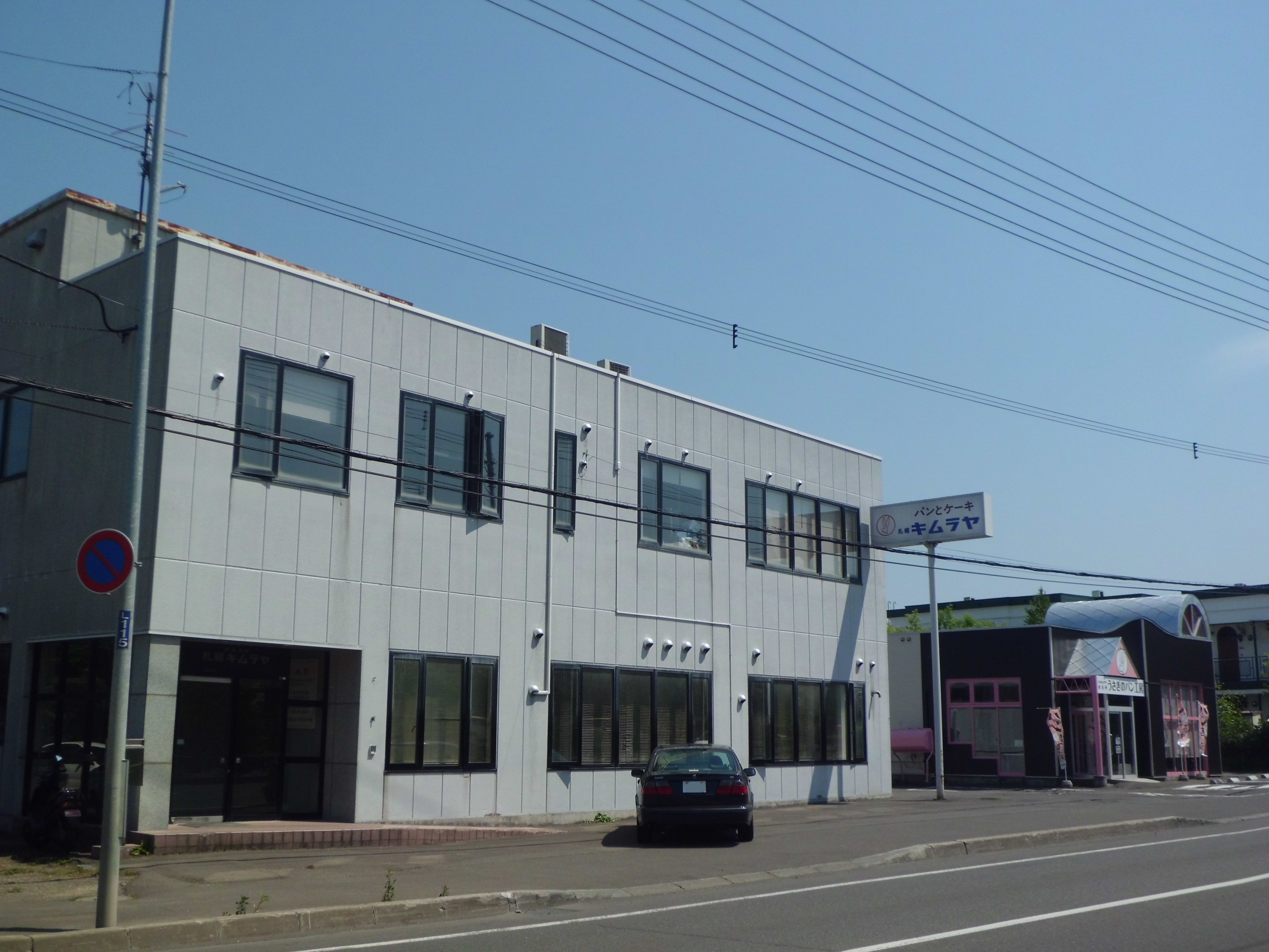 Sapporo Kimuraya